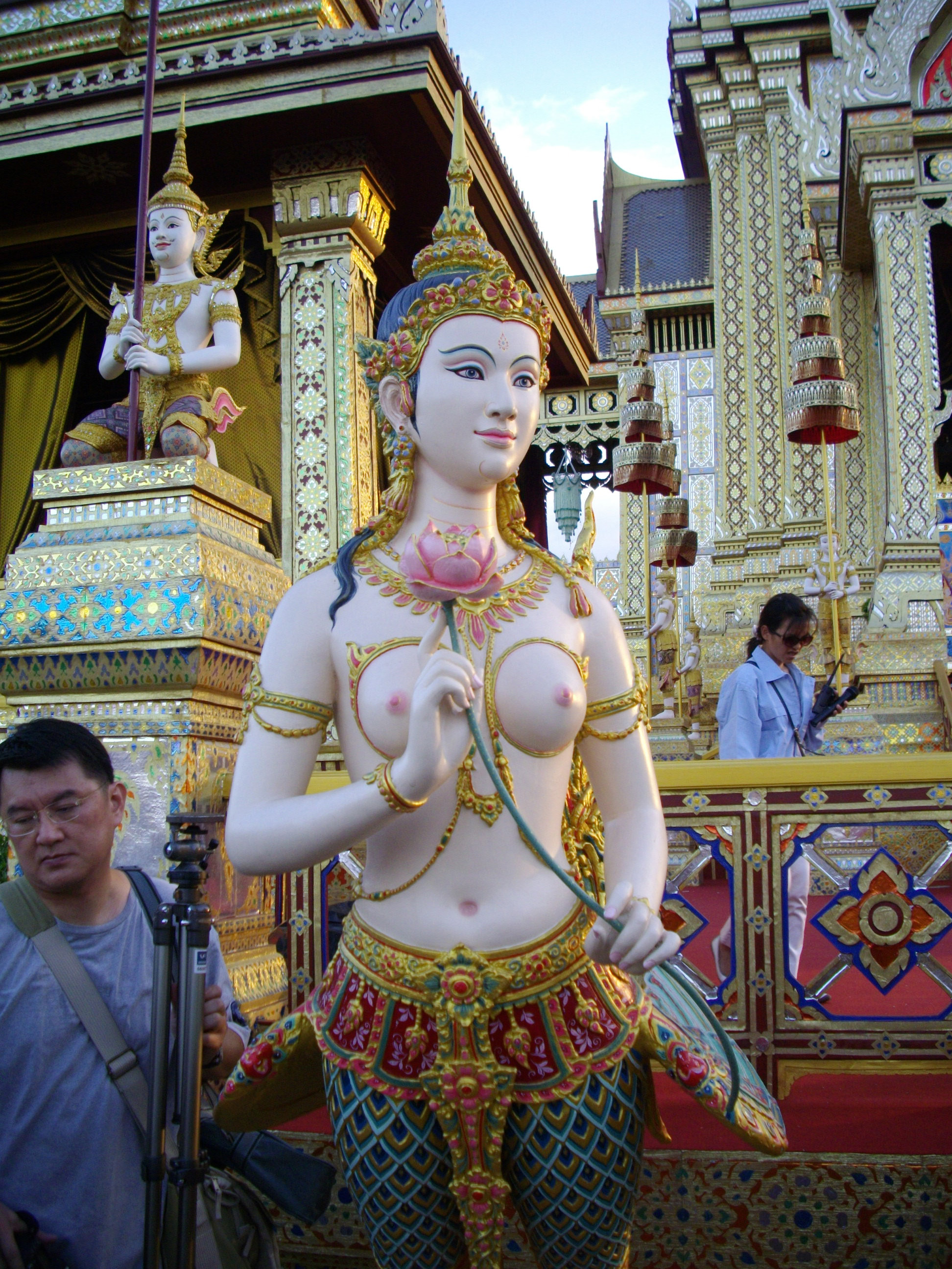 One of two sculpture of "Kinnari", a half woman half bird, at the royal crematirium of HRH Princess Galyani Vadhana at Sanam Luang.